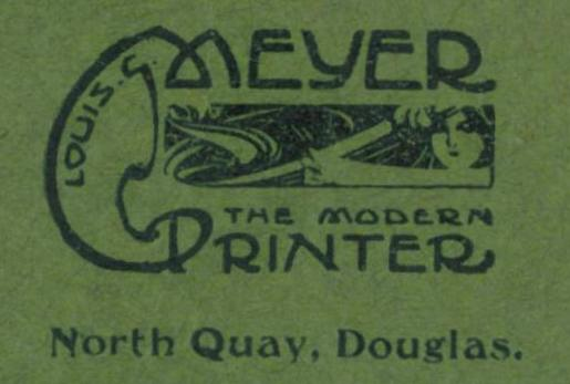 The logo of the Douglas, Isle of Man publisher, Louis G. Meyer. This image comes from the back cover of W. Walter Gill's 'Juan-y-Pherick's Journey and Other Poems'